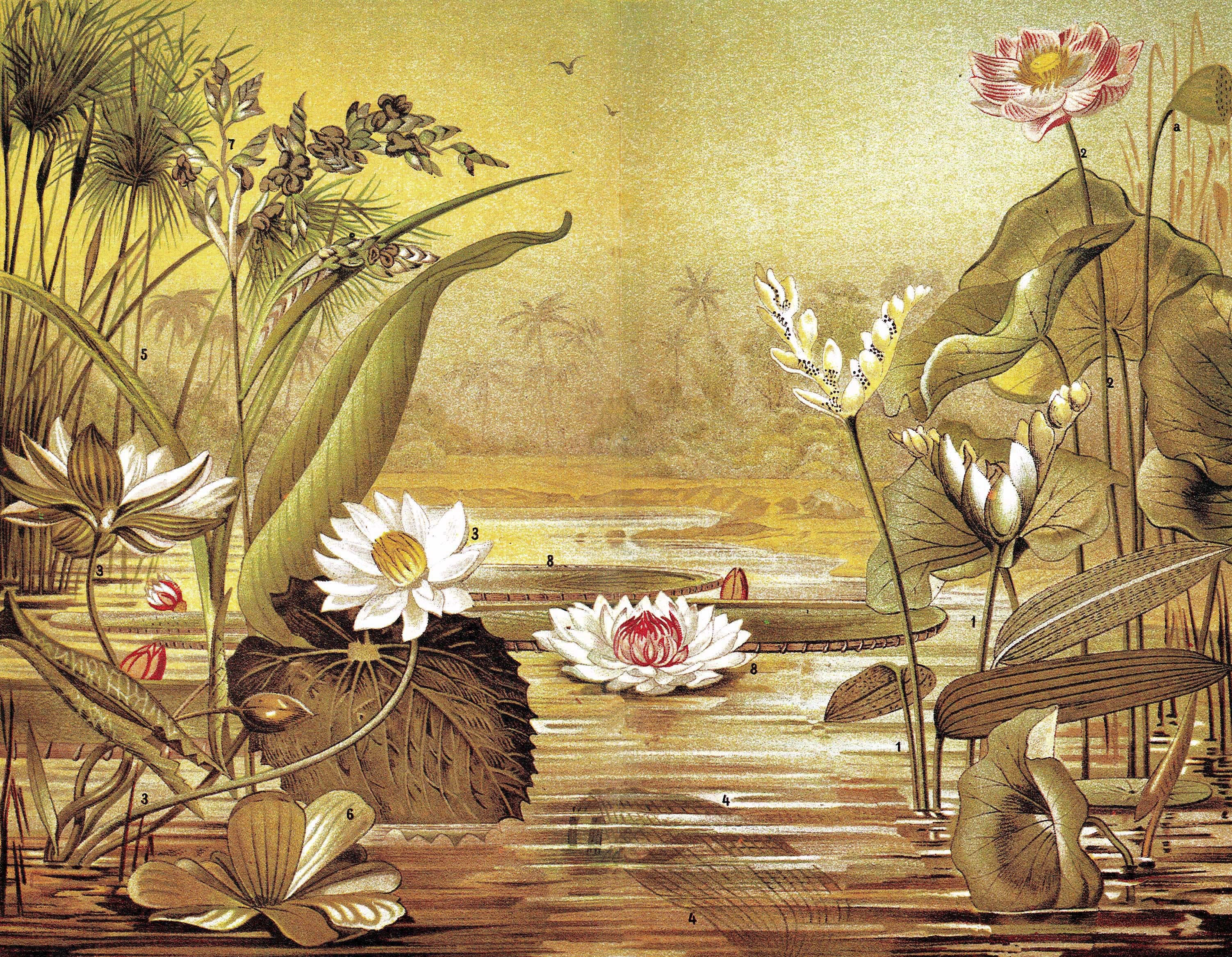 Illustration from Brockhaus and Efron Encyclopedic Dictionary (1890—1907)